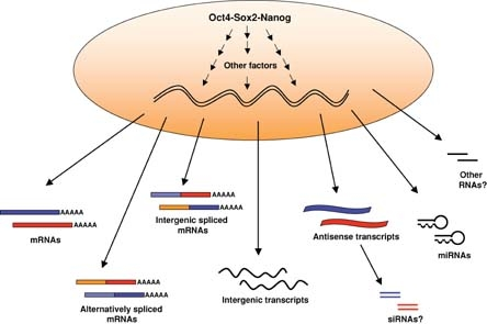 The “core” regulators of pluripotency Oct4, Sox2 and Nanog, act in concert with other transcription and chromatin modifying factors to establish and maintain the transcriptional program of pluripotency. The accessible chromatin of ES cells may allow for increased global transcription resulting in expression of many genes, their splicing isoforms, intergenic spliced mRNAs, non-coding intergenic transcripts and antisense transcripts. The function of these novel transcripts in ES cells is not yet understood. Antisense transcripts are thought to regulate the expression of their sense counterparts, possibly by sense-anti-sense pairing and production of siRNAs. Endogenous siRNAs have been recently detected in oocytes (Tam et al., 2008; Watanabe et al., 2008), but so far they have not been described in ES cells. miRNAs however, have been shown to be expressed in ES cells and are required for their proliferation and differentiation (reviewed in (Bibikova et al., 2008)).